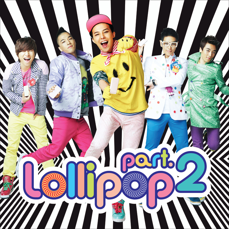 LG Lollipop Part 2 Big Bang